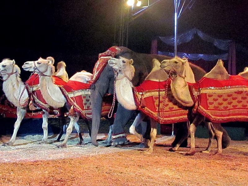 Camels and an elephant perform at the Hungarian National Circus.